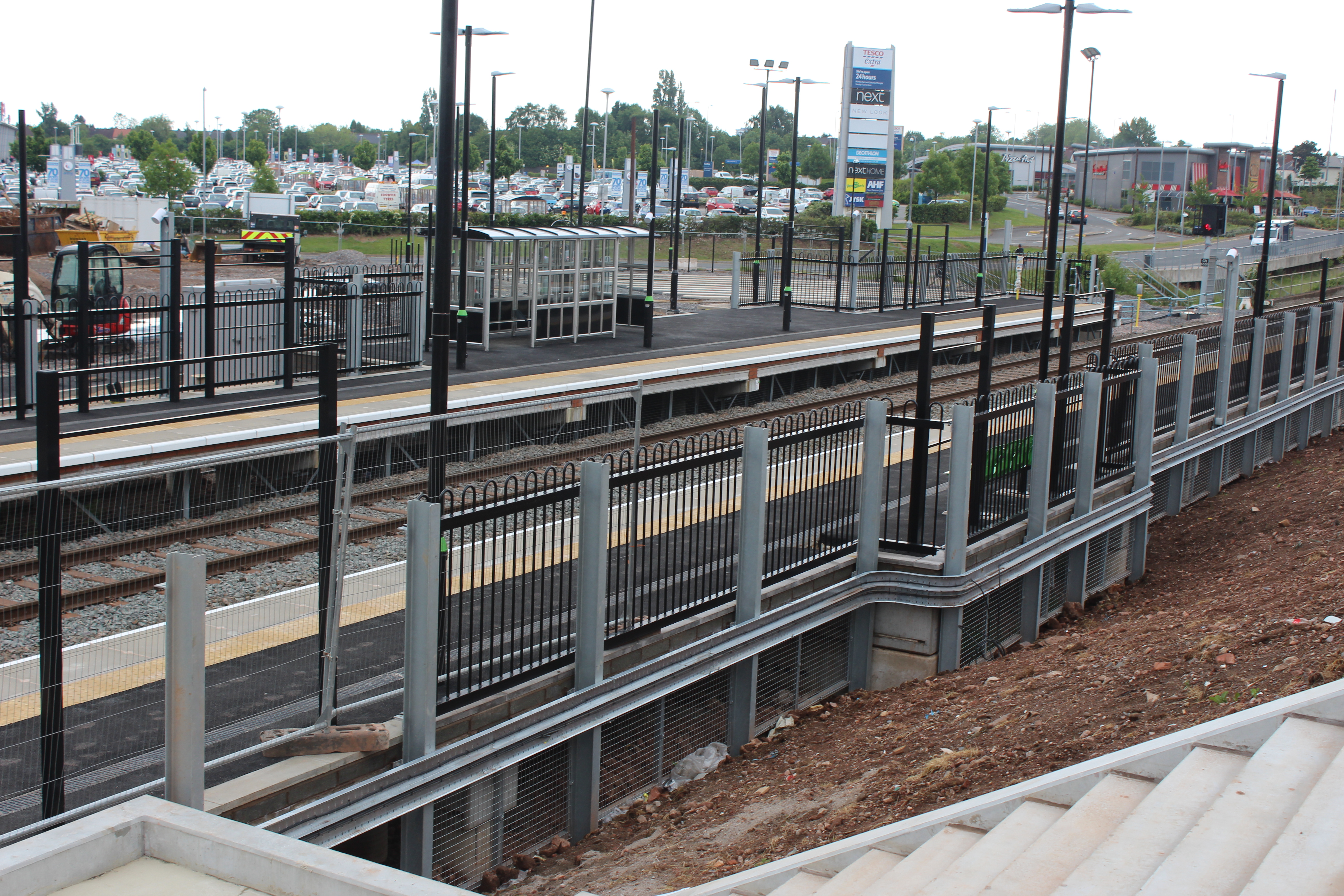 Coventry Arena railway station, Coventry, West Midlands, England.Nearing completion of construction.